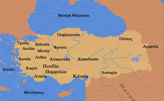 Ancient Asia Minor map, created by ΗΠΣΤΓ